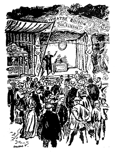 Christiaan Slieker's traveling cinema Grand Theatre Edison at the Parktuin Tivoli in Utrecht.